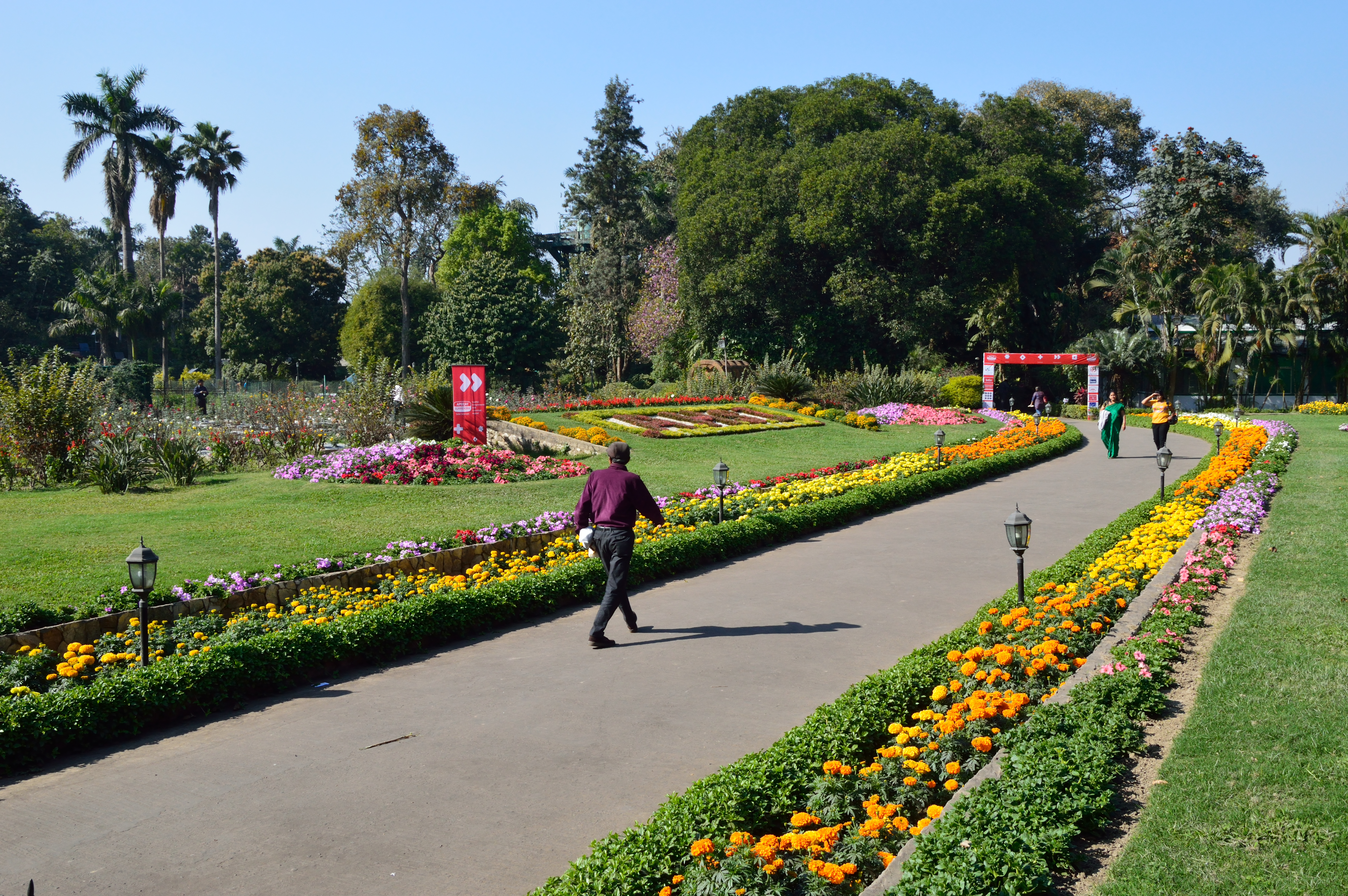 The 186th Annual Flower Show was held at the garden of the Agri-Horticultural Society of India, Alipore, Kolkata, from 7 to 10 February 2013. The exhibition comprises Bonsai, Cacti, Crotons, Dahlias, Fruits, Herbal plants, Palms, Roses, Succulents, Vegetables and perennial flowering plants in pots and uprooted.